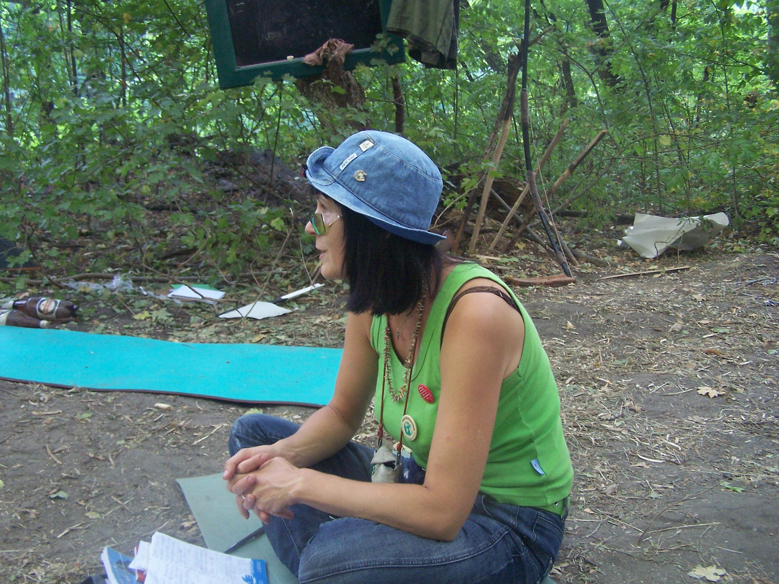 Angelina Yar providing a lecture in Golomolska National Nature Park, Harkiv region.